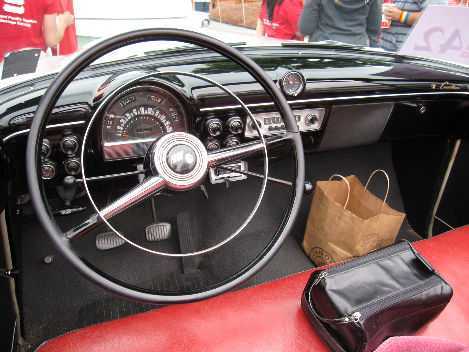 For the 2011 Los Angeles Pride, I marched with a pan-Asian delegation, to show my support for LGBT rights in Asian communities of Southern California. API Equality Los Angeles was honored with the Connie Norman Award for its outstanding work in furthering LGBT rights for Asian-Americans. This vintage Ford convertible is being used to carry a few of API Equality's members and to showcase the honor. This is a very old model, produced for model years 1952 through 1954. It has manual choke, a pull lever for overdrive gear, and almost everything operated by pull switches.